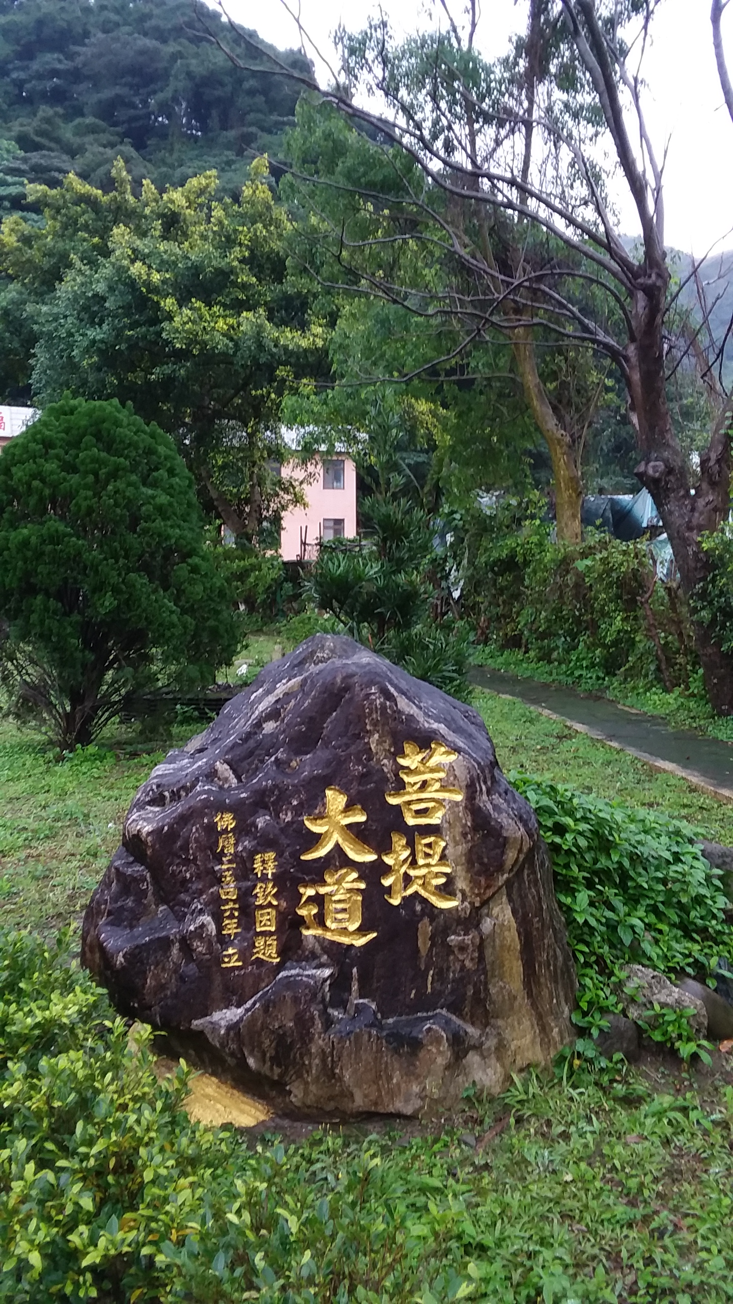 A rock with the carving of "Way to Bodhi"